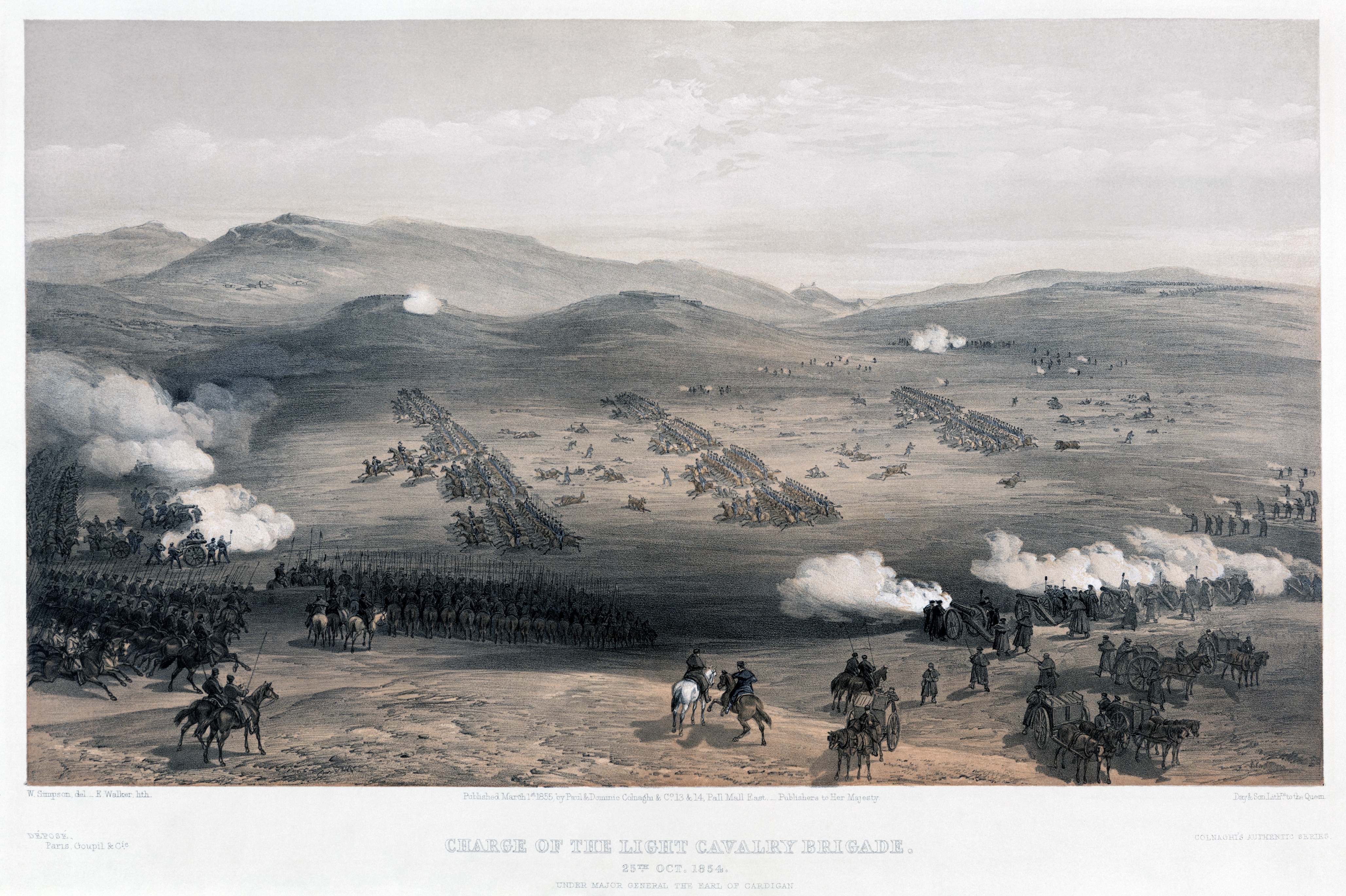 "Charge of the light cavalry brigade, 25th Oct. 1854, under Major General the Earl of Cardigan" Tinted lithograph